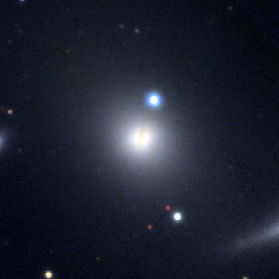 PanSTARRS image of NGC 708.